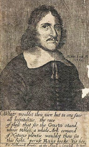 Portrait engraving of Robert May from his book The Accomplisht Cook, 1660